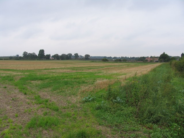 Battle of Stoke Field. The 1:50000 OS map shows this field as the battle ground but the 1:25000 OS map puts it about a mile away. More details may be found at